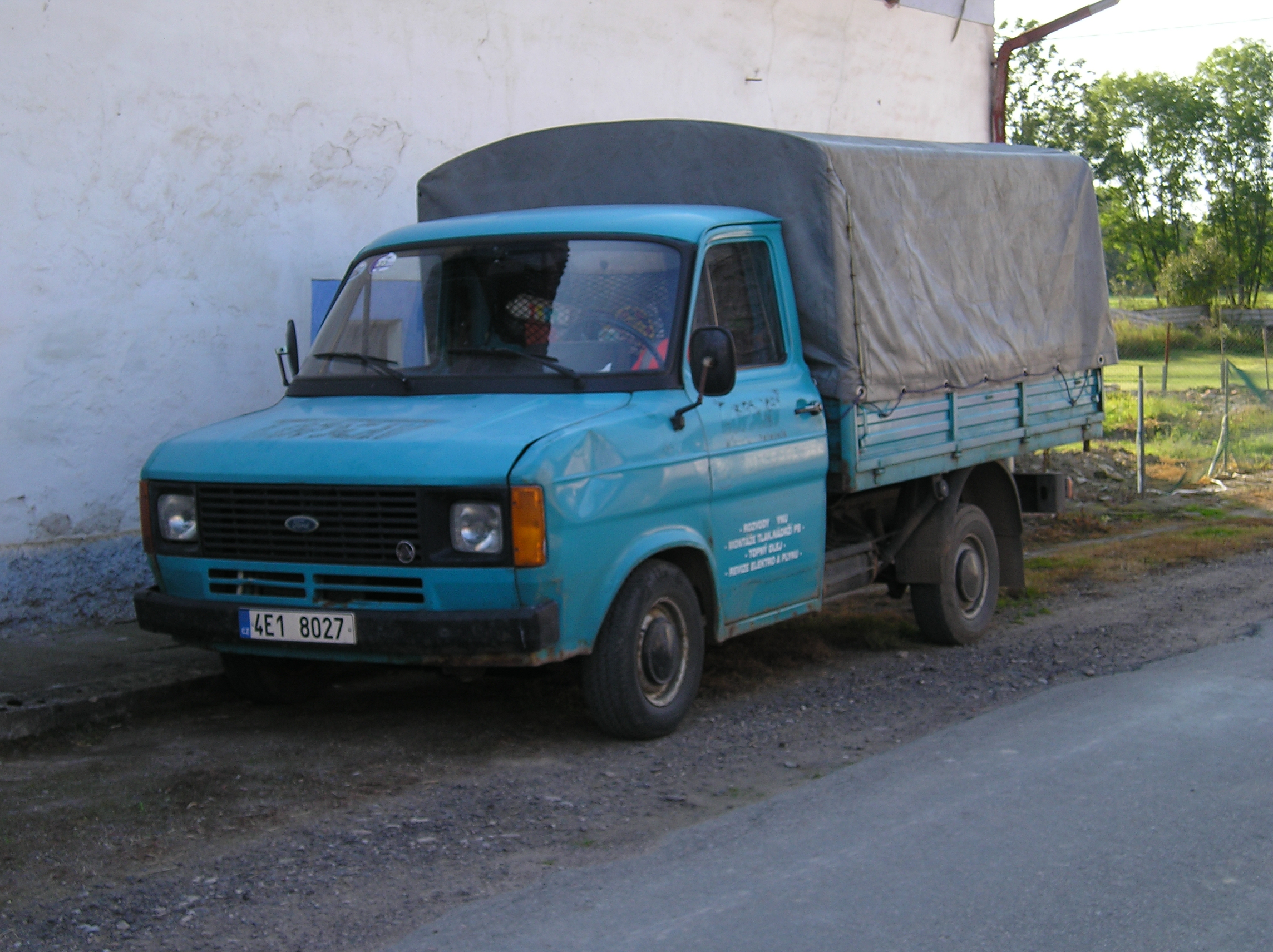 Ford Transit (1978)